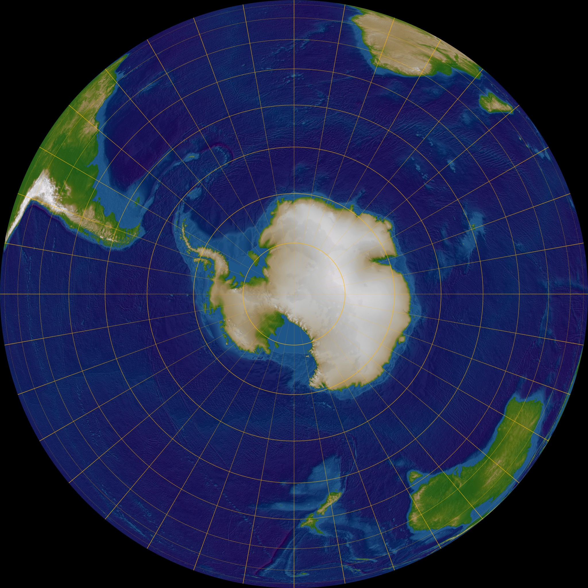 Polar orthographic projection. Map center is at 0°E, 90°S (South pole)